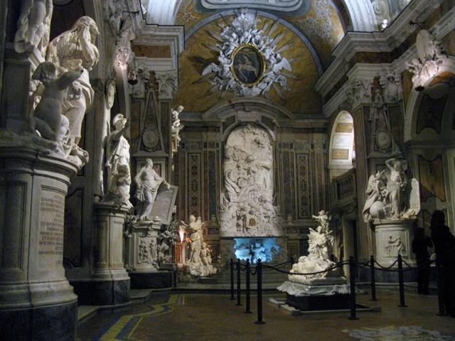 Immagine d'insieme 2, Cappella Sansevero